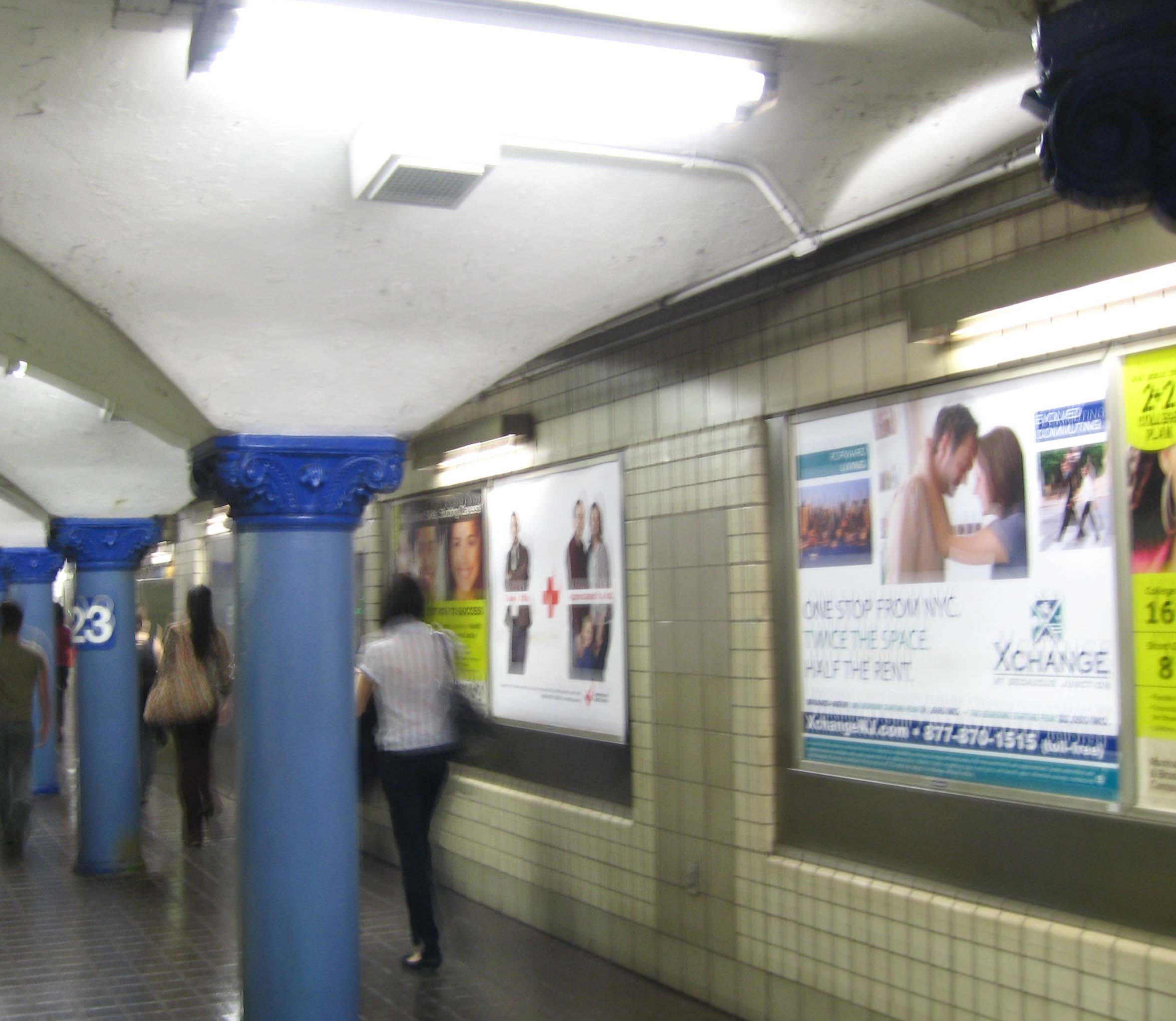 Looking northeast along platform of en:23rd Street (PATH station)